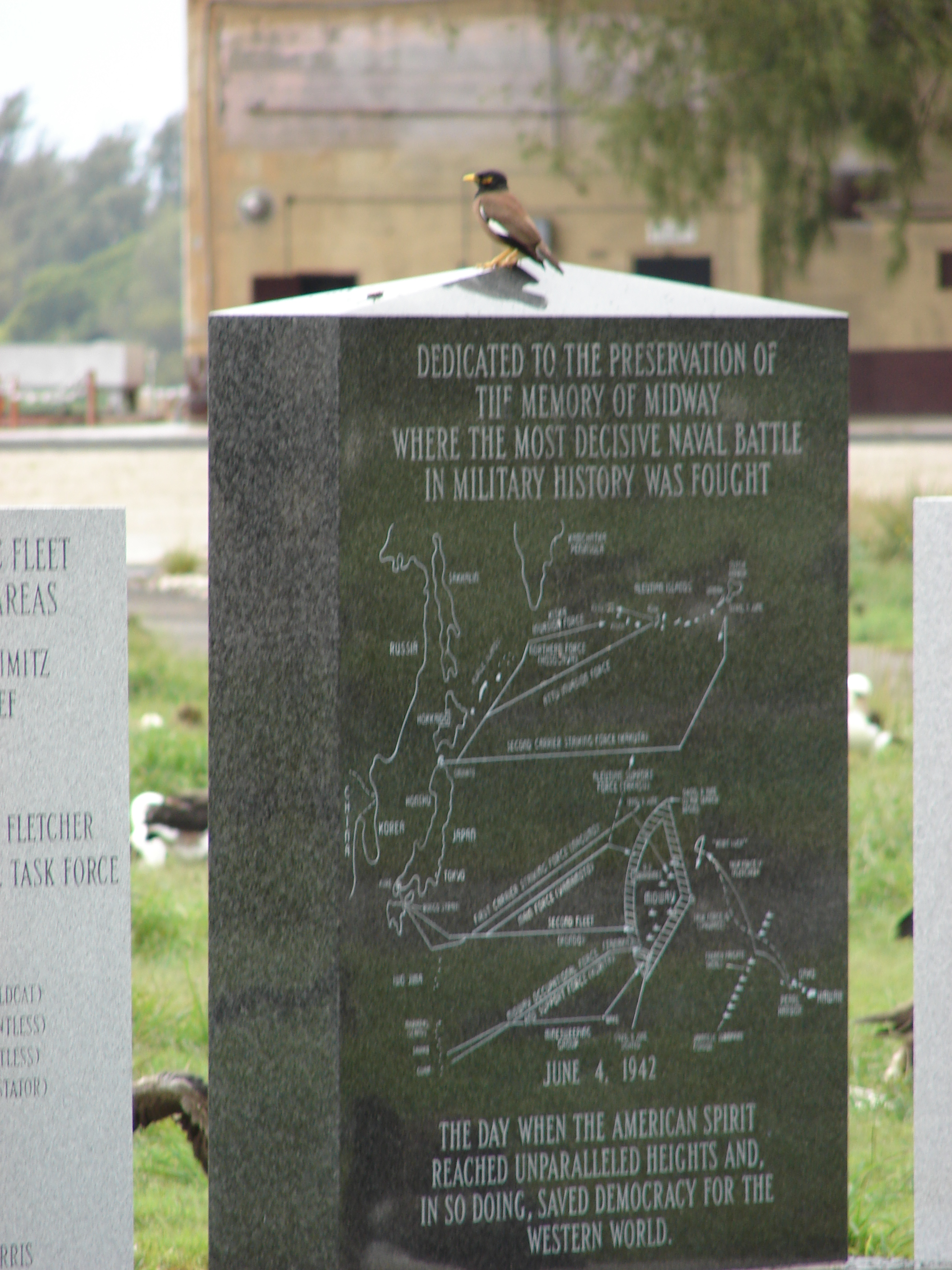 Casuarina equisetifolia (habit with mynah on memorial). Location: Midway Atoll, Flag field Sand Island